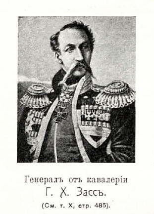 Zass, Grigory Khistoforovich.